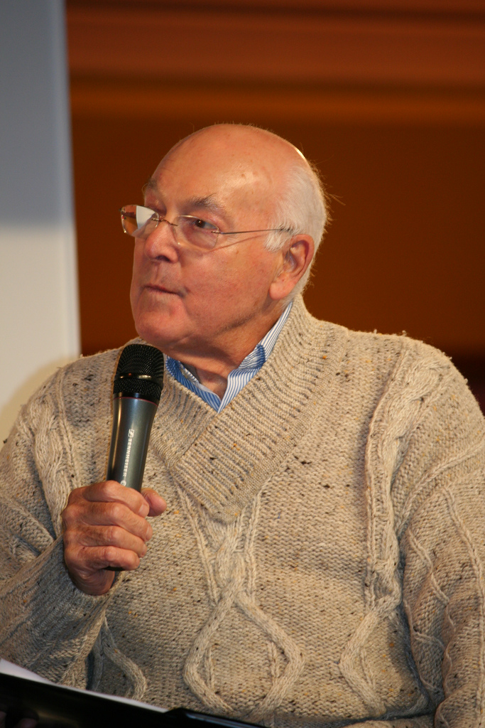 Murray Walker at Autosport International 2009